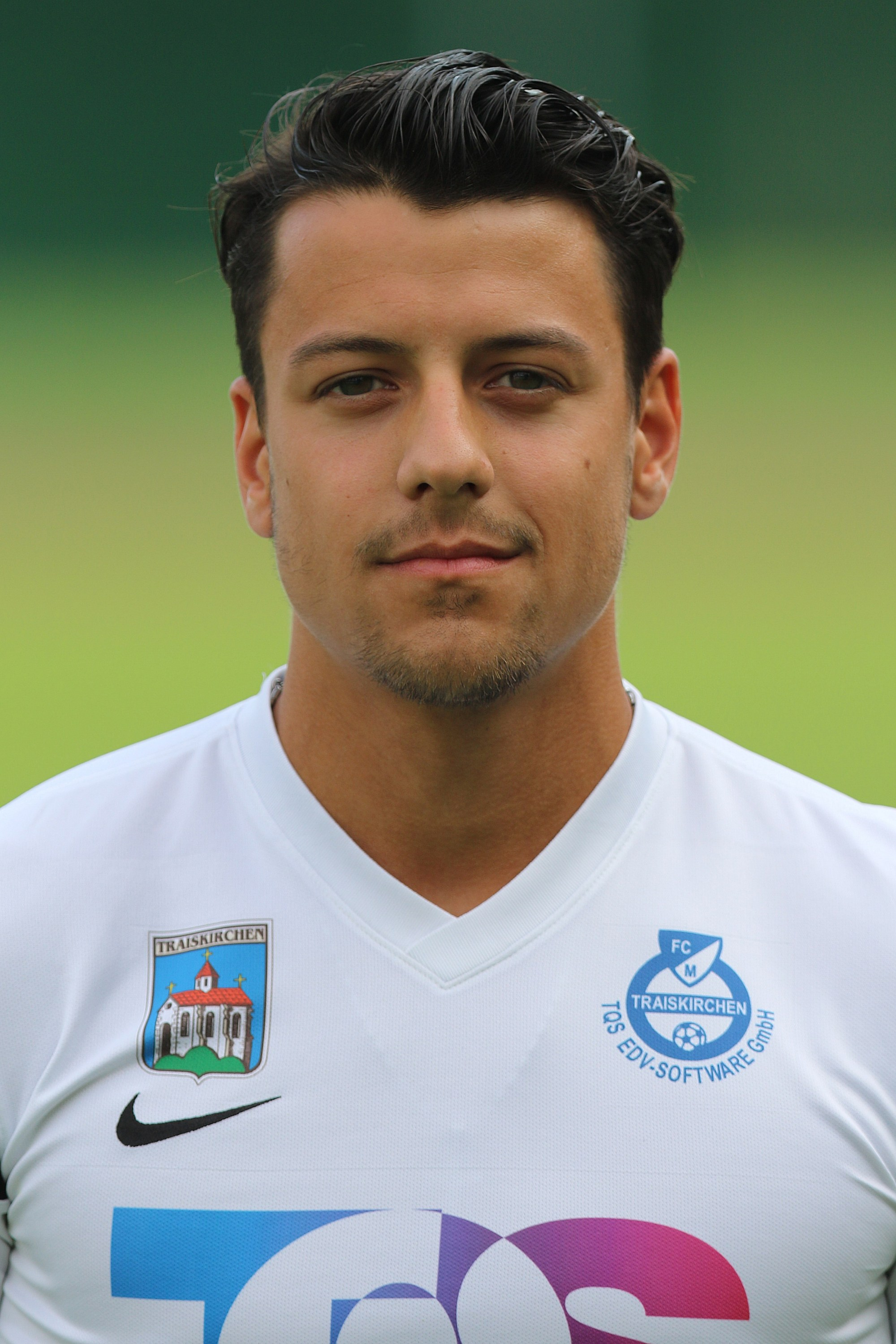 FCM Traiskirchen squad for the 2016-17 season. – The photo shows Benjamin Bachler.